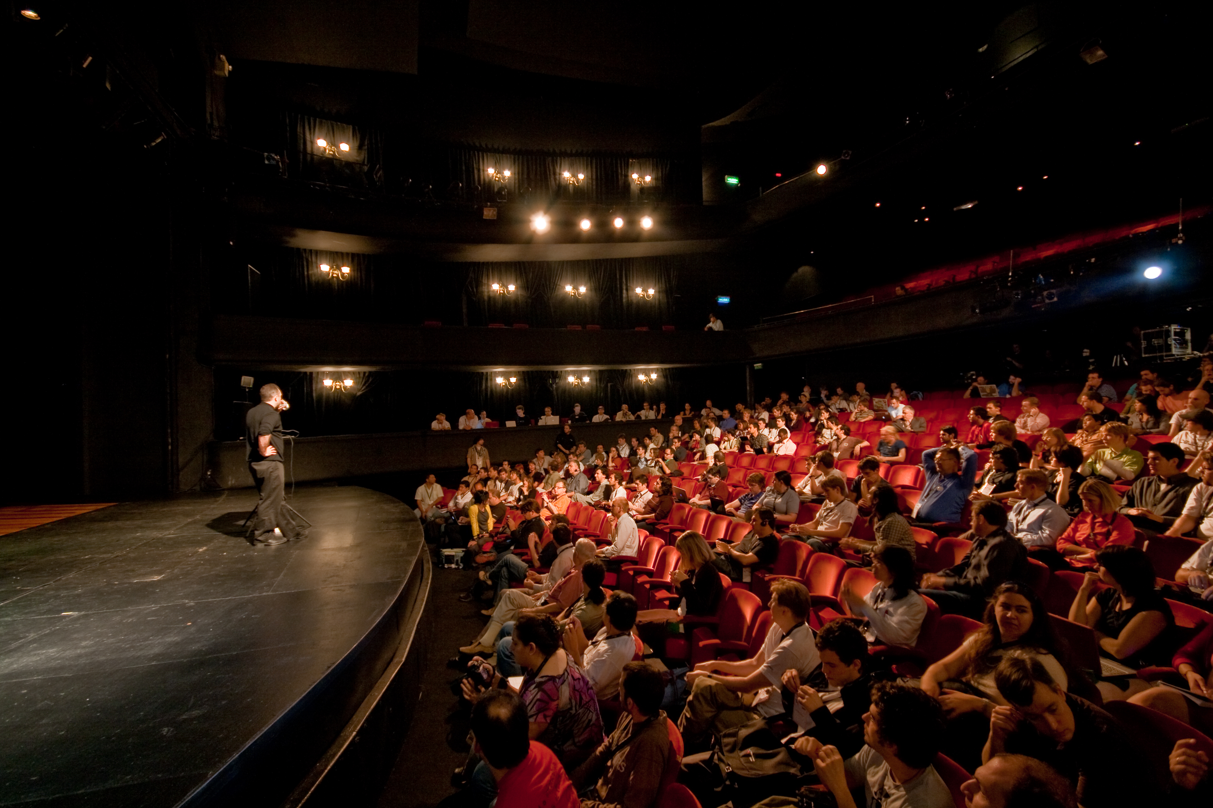 Keynote from Jimmy Wales: The State of the Wiki.